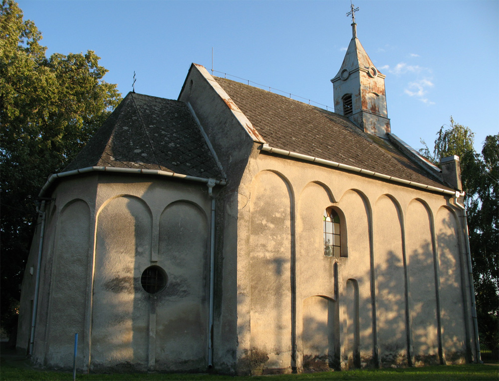 Church of Gáň